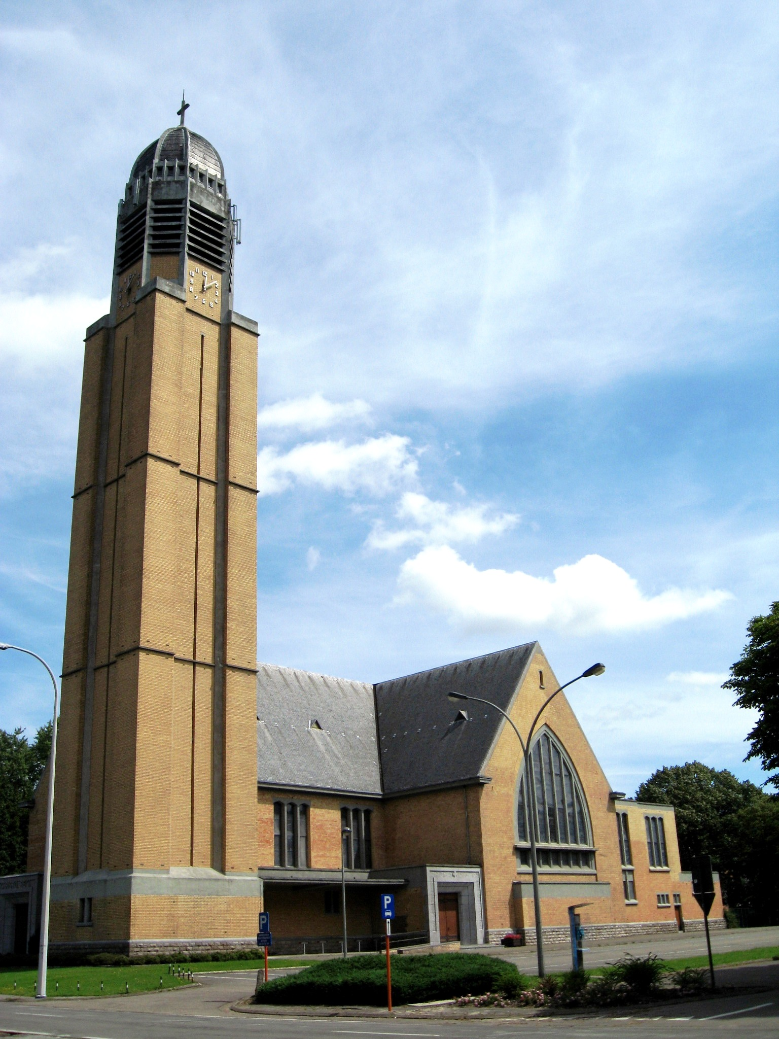 Mine cathedral of Christ the King in Genk (Waterschei), Limburg, Belgium